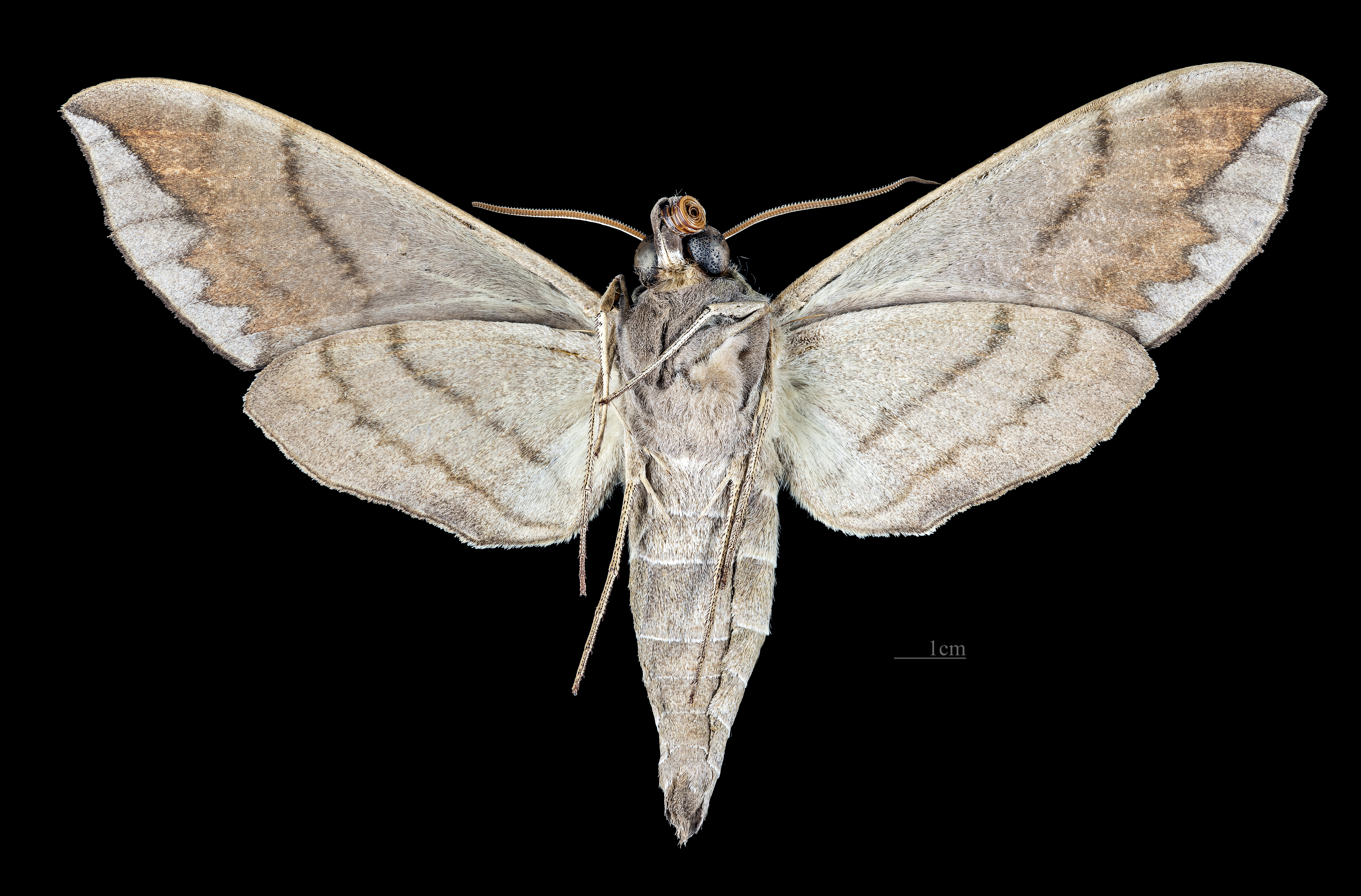 Eumorpha elisa - △ Ventral side Collection of the Mathematician Laurent Schwartz